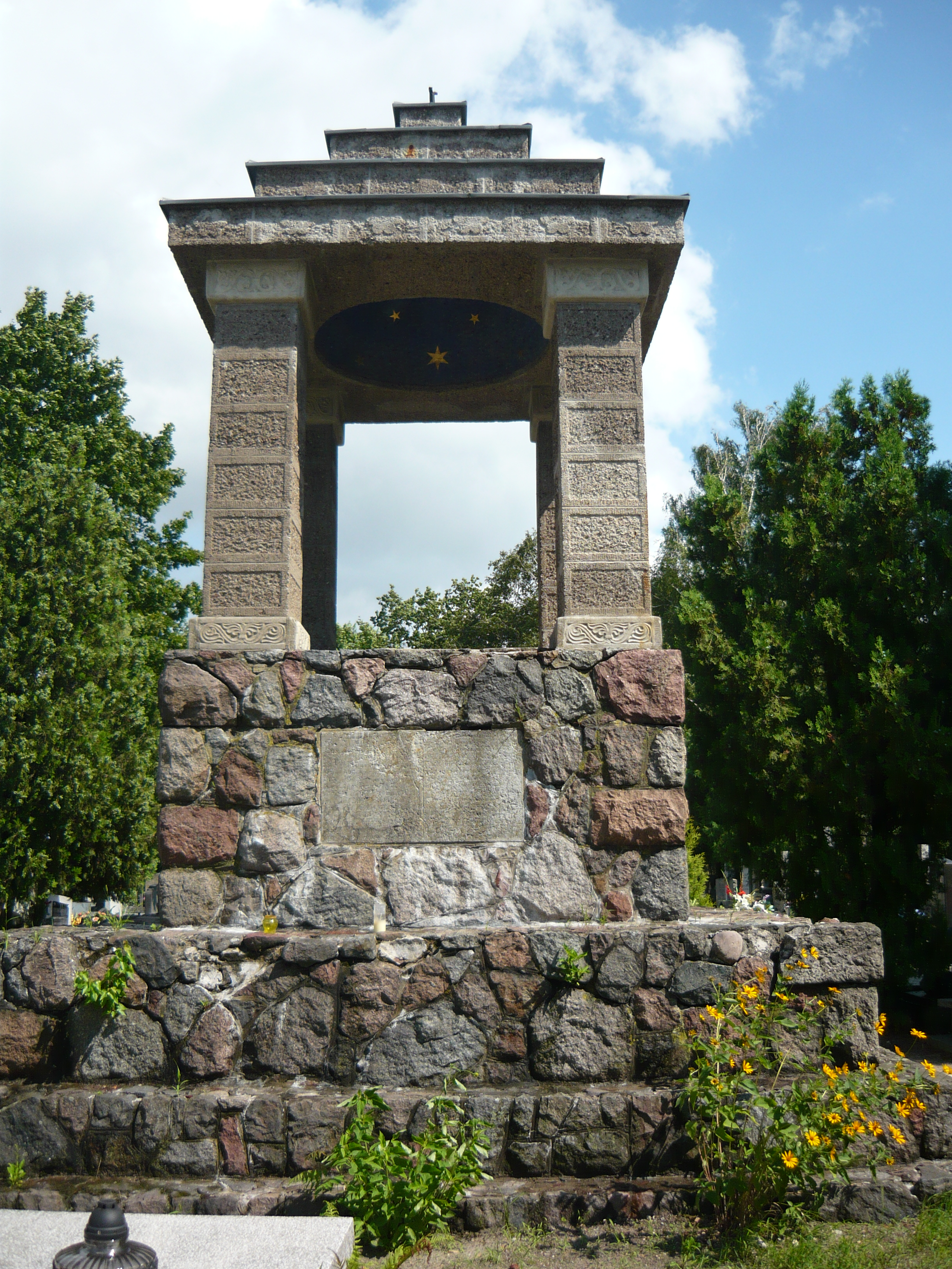 The ruin of the monument of german soliders, who died on I world war. In the past there was statue of german knight inside, on the top was figure of the eagle. Now, the plaques are too damaged to read it.